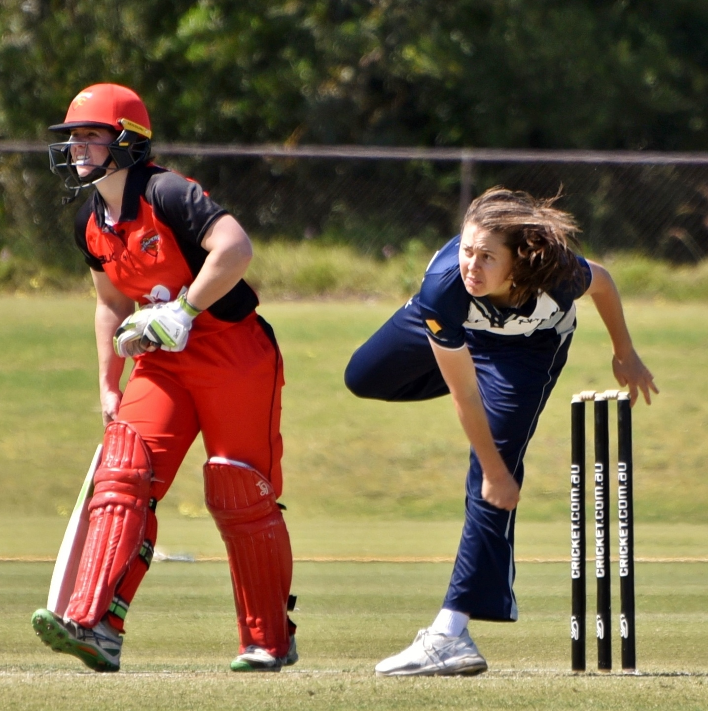 Molly Strano bowling for the Victoria Women cricket team during a WNCL clash against the South Australian Scorpions at Murdoch University Sports Oval in Perth. The batter is Tegan McPharlin.